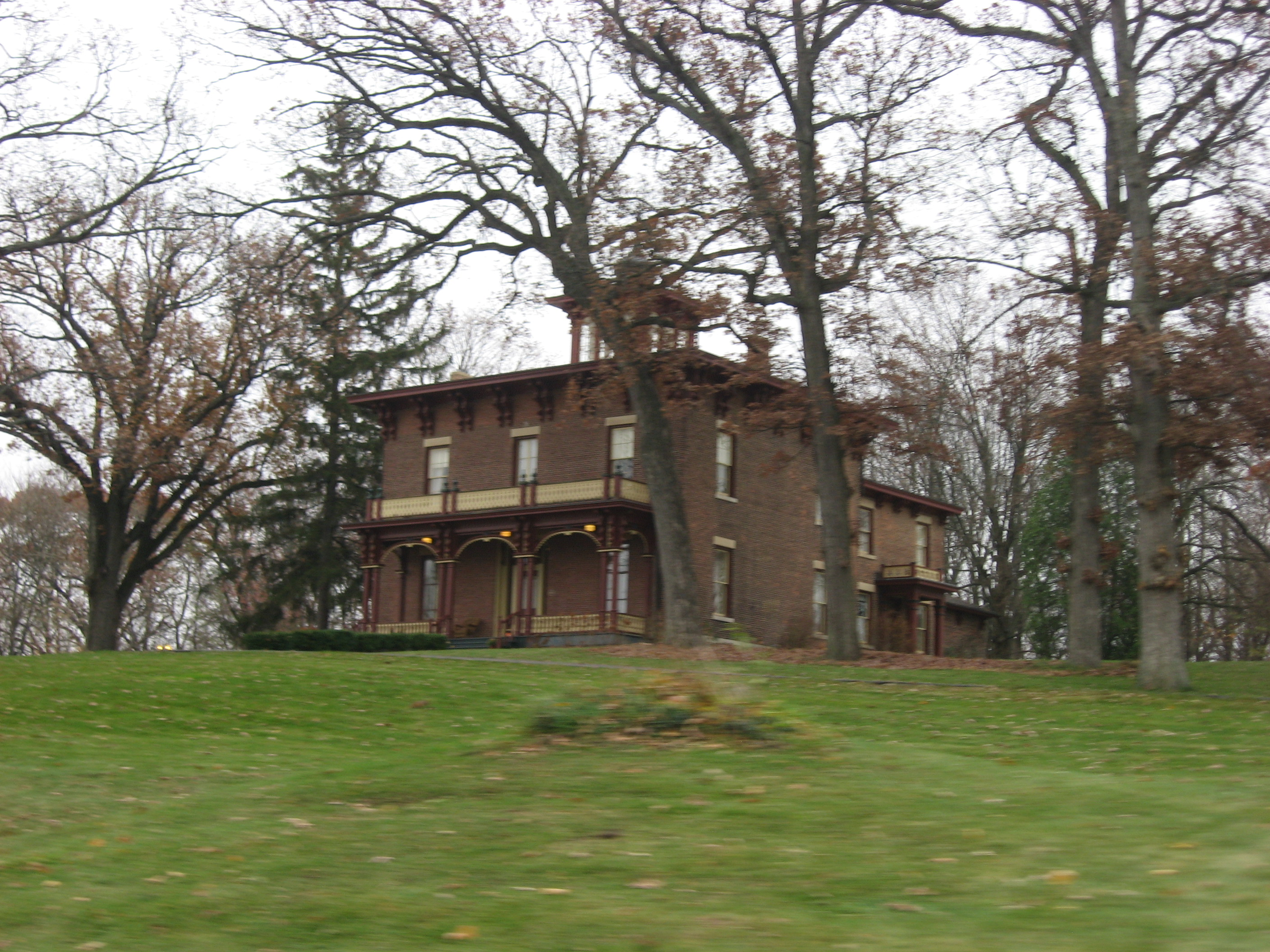 Front and western side of the Jeremiah H. Service House, located at 302 E. Michigan Street (U.S. Route 20) in New Carlisle, Indiana, United States. Built in 1861, it is listed on the National Register of Historic Places.